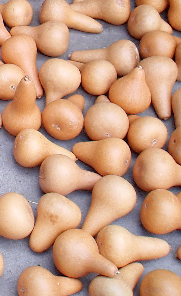 Natural gourds before being transformed into ornaments